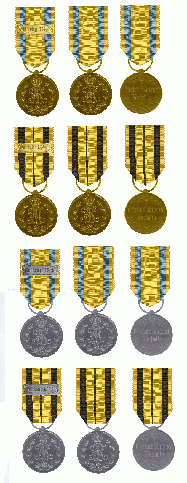 Medal of Saxen